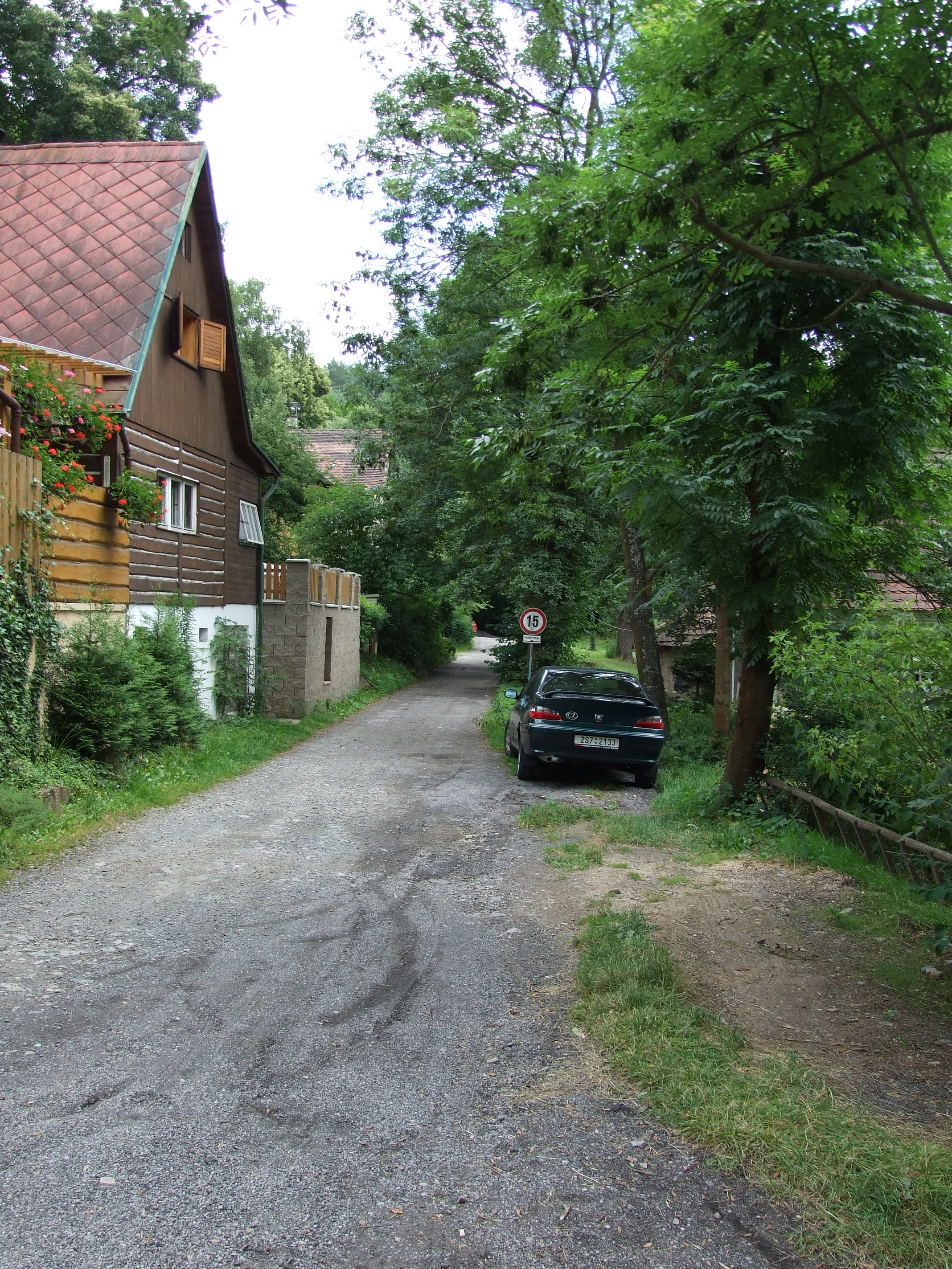 Poteply, part of Malé Kyšice village in Kladno district, CZhelp